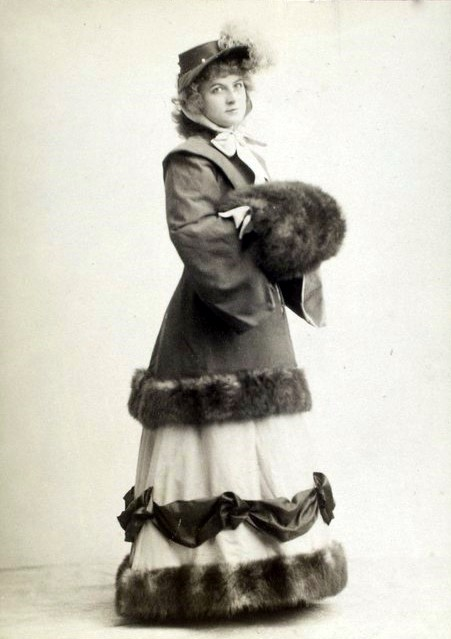 Emily Bancker, Pictured wearing a muff. Note 2.) Printed on front of cabinet card: Sarony, 37 Union Sqr. N.Y.